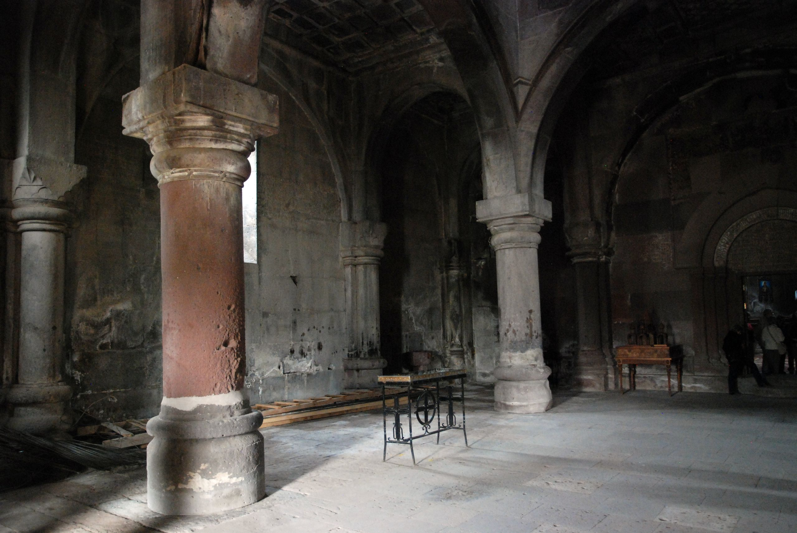 Harichavank, gavit